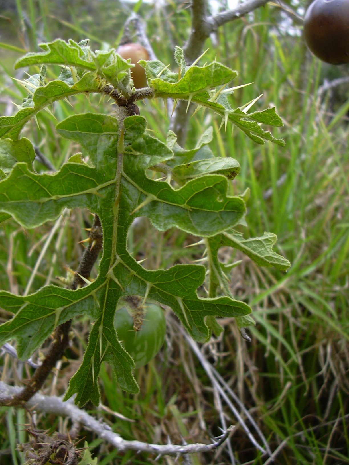 Solanum linnaeanum (leaf and prickles). Location: Maui, Auwahi